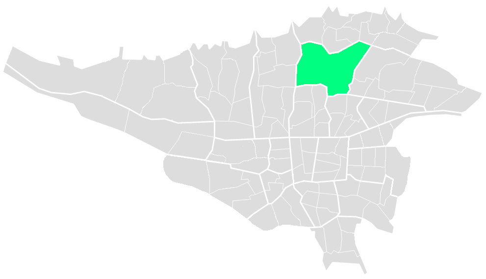 Region 3 of Tehran